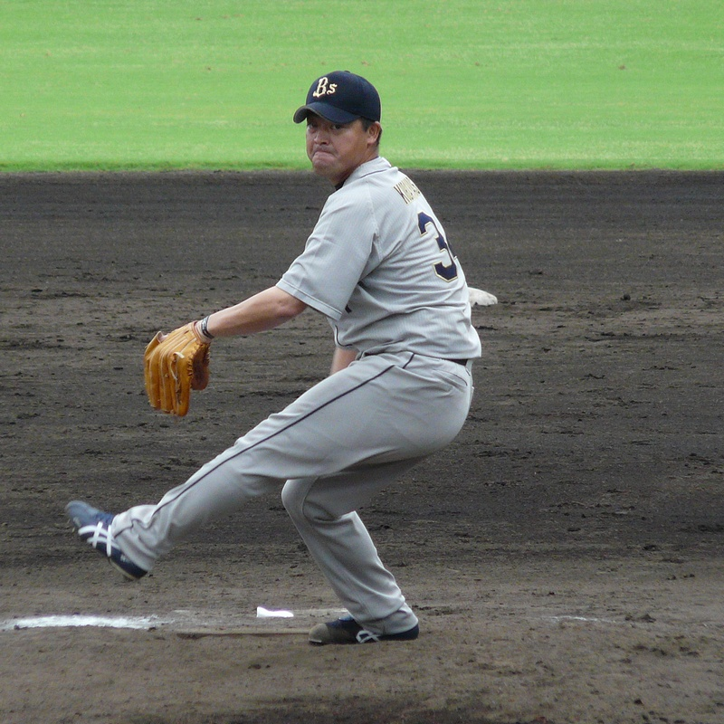 Masahide Kobayashi, pitcher of the Orix Buffaloes, at Hanshin Naruohama Baseball Ground.